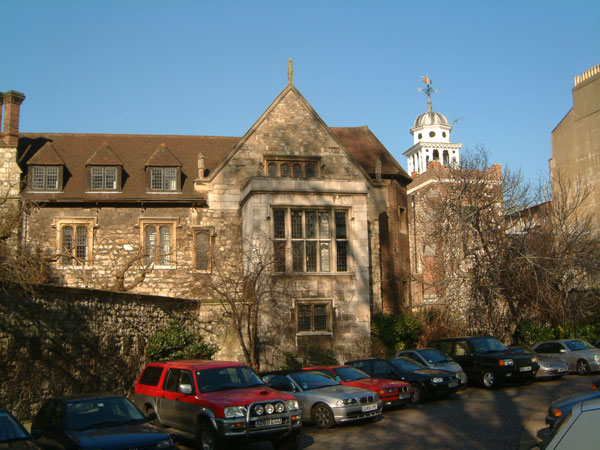 The London Charterhouse, north of Charterhouse Square, EC1, England.